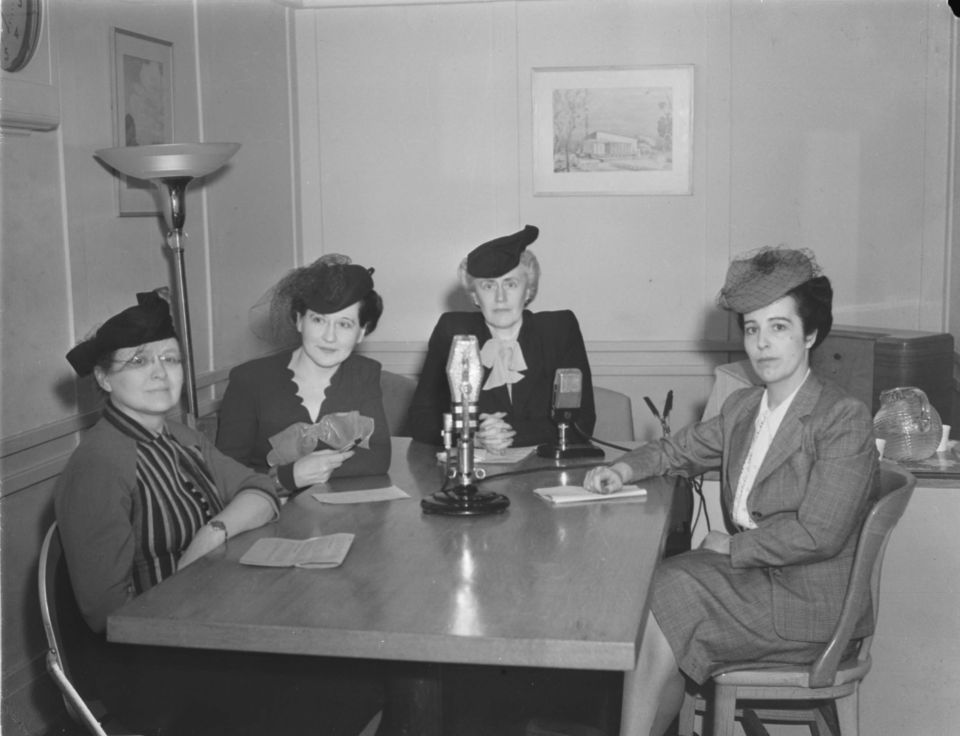 Three guests of the show "Votre opinion Mesdames" under the direction of Mrs. Pierre Casgrain (Thérèse Casgrain), gathered around a table in the studios of the C.B.C. station (Radio-Canada) in Montreal. We see, from left to right, Ms. Germain Parrot, president of the feminine St. Vincent de Paul, Ms. Juliette Dupont-Perron, librarian at the International Service for the CBC, Thérèse Casgrain and Mrs. Daniel Yturralde, secretary BCS clinic in Montreal.